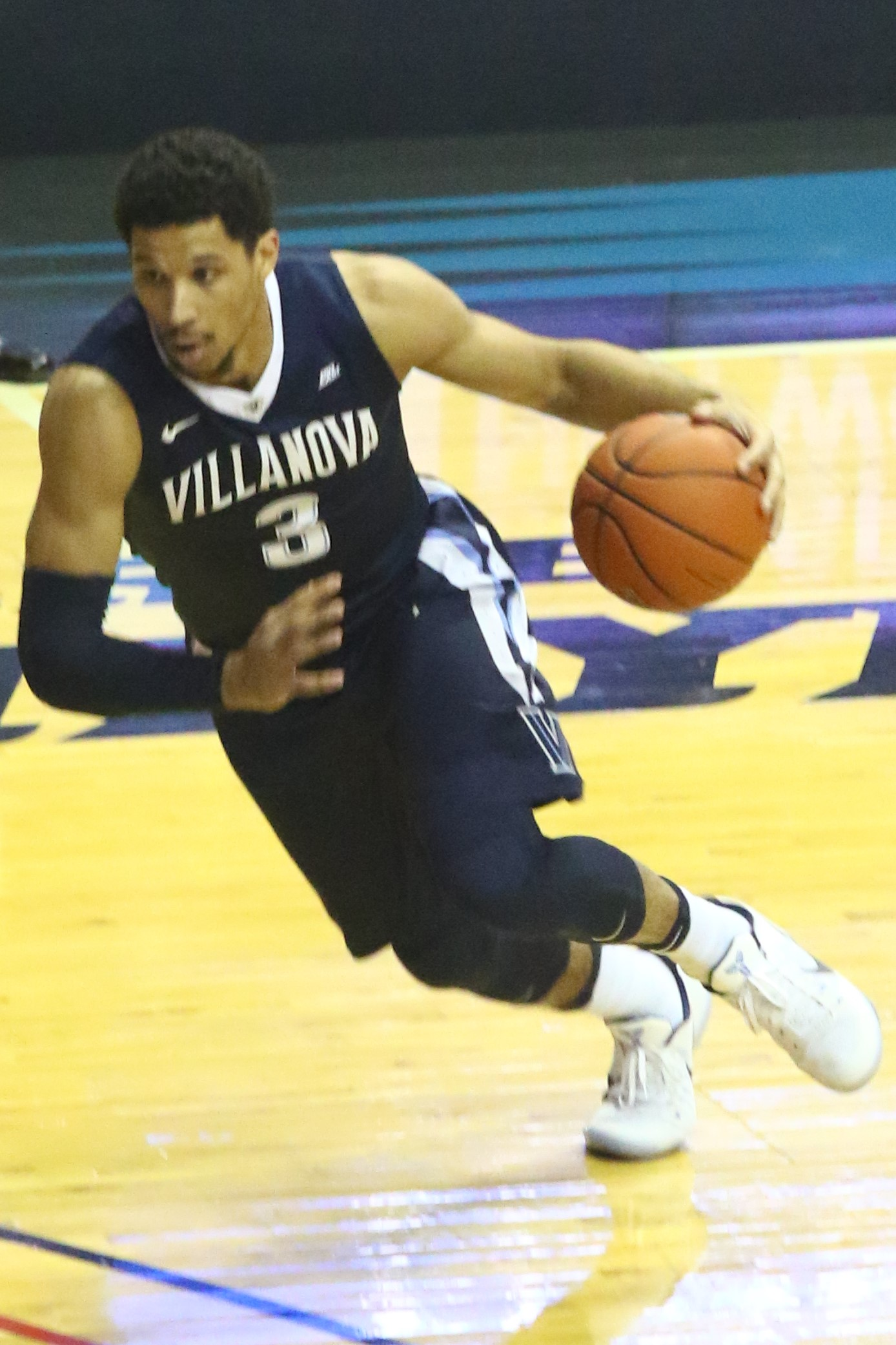 Josh Hart for the w:2016–17 Villanova Wildcats men's basketball team at Allstate Arena